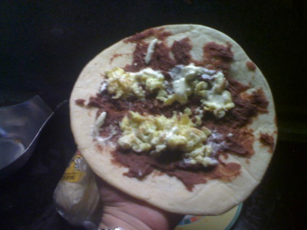 Self made, self taken, picture taken from facebook